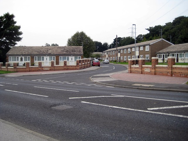 The Chase This sheltered housing scheme is on the site of the former Stanley railway station which closed in 1964.